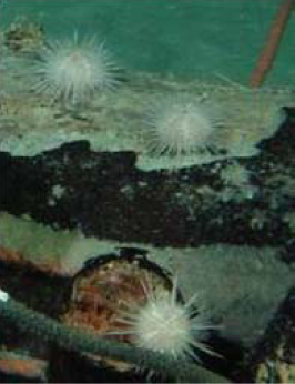 Asterechinus elegans. Courtesy of Ifremer, France (Medeco-2 expedition).